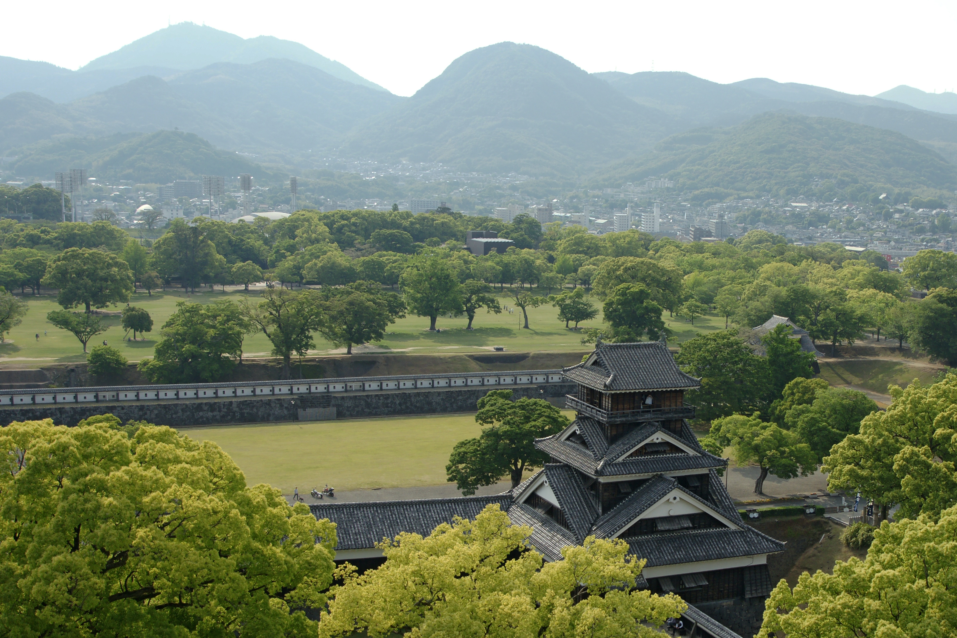 Kumamoto Castle, Kumamoto, Kumamoto prefecture, Japan